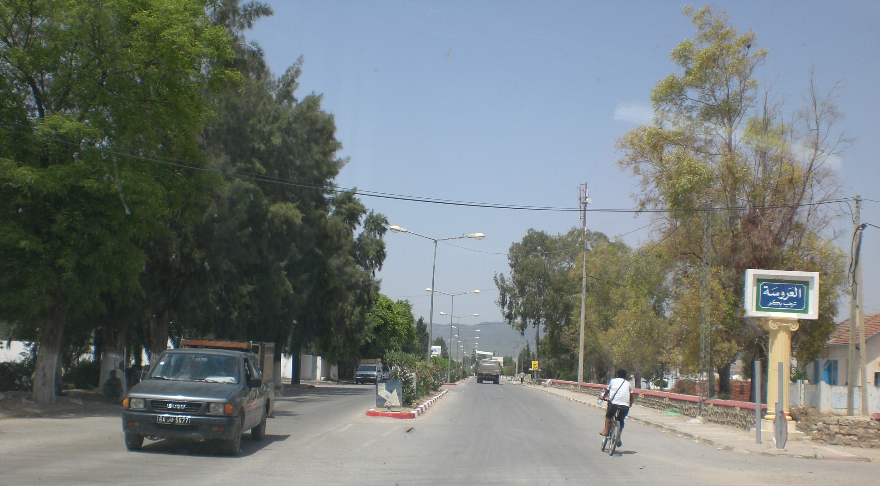 Photo of Laroussa